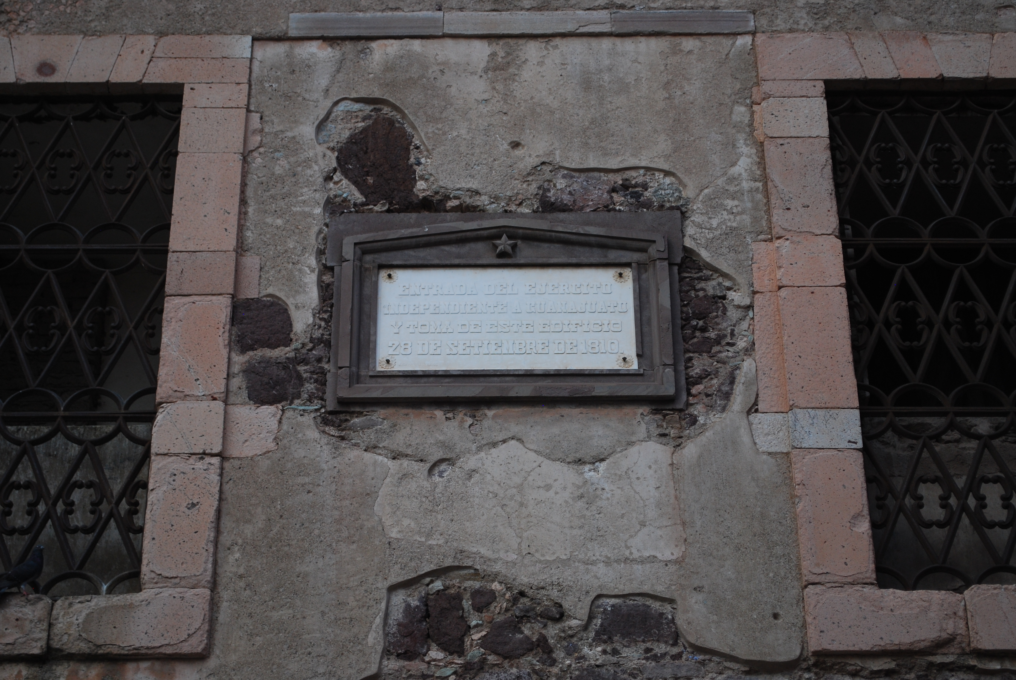 Plaque commemorating the taking of the Alhondiga by the insurgent army on 28 September 1810 on the Alhondiga de Granaditas in Guanajuato, Mexico